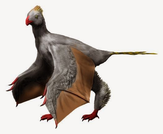 Restoration of Yi qi.